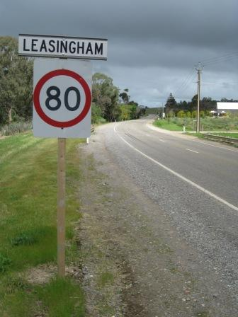 Northern entrance sign to Leasingham, South Australia, along the Horrocks Highway.